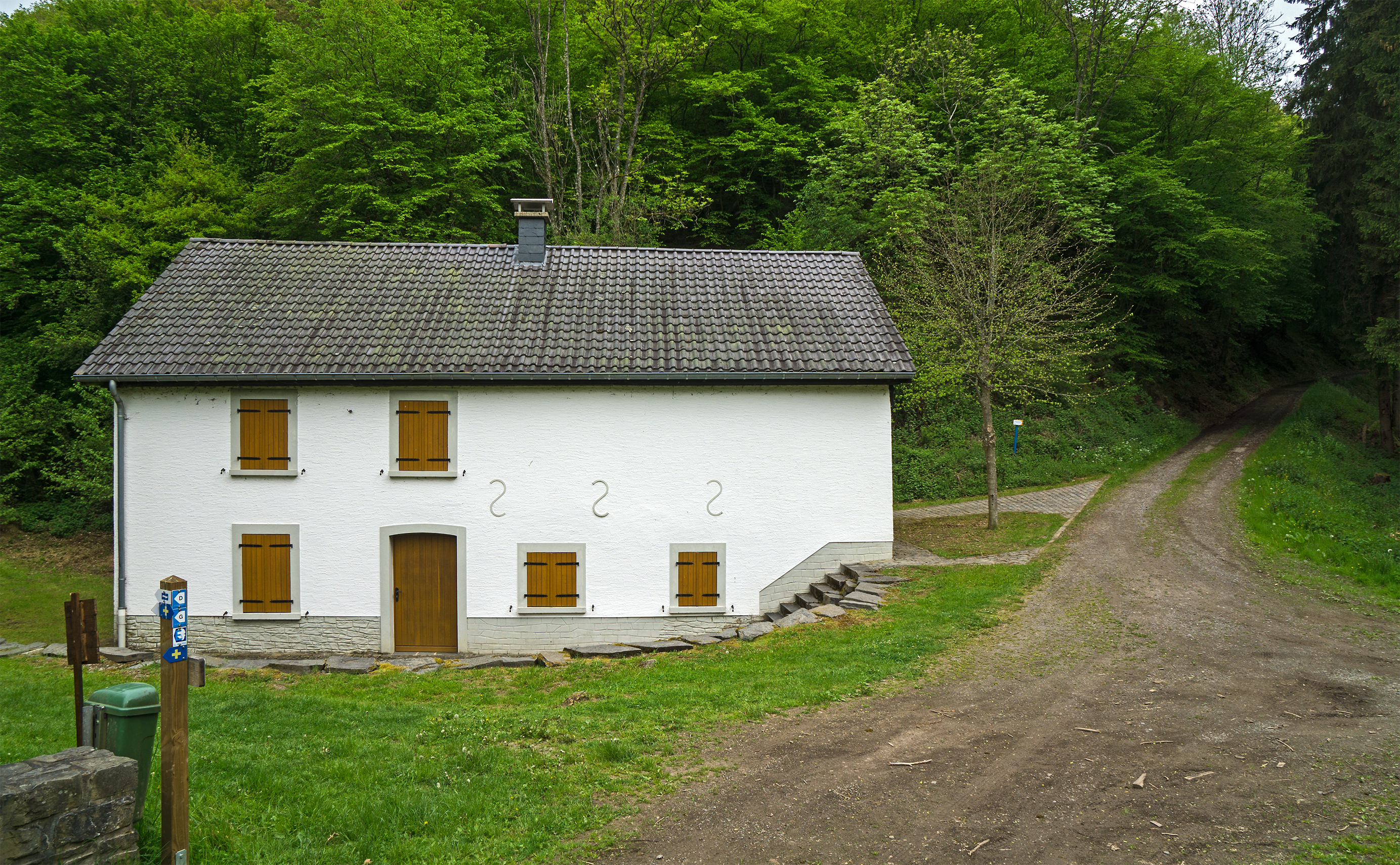 Building in Oberschlinder